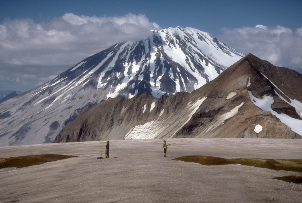 Mount Griggs volcano, 2,317-m (7,602 ft)-high, here seen from the west rim of Katmai caldera, lies 10 km (6 mi) behind the volcanic arc defined by other Katmai group volcanoes. Although no historic eruptions have been reported from Mount Griggs, vigorously active fumaroles persist in a summit crater and along the upper southwest flank. The slopes of Mount Griggs are heavily mantled by fallout from the 1912 eruption of Novarupta volcano. View is to the northwest.